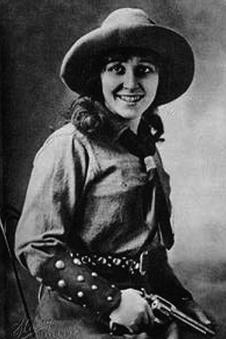 Edith Storey in a still promoting the western film When the Tables Turned (1911).